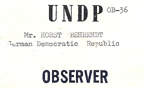 Observer Card - Session Governing Council - Geneve 1976 July